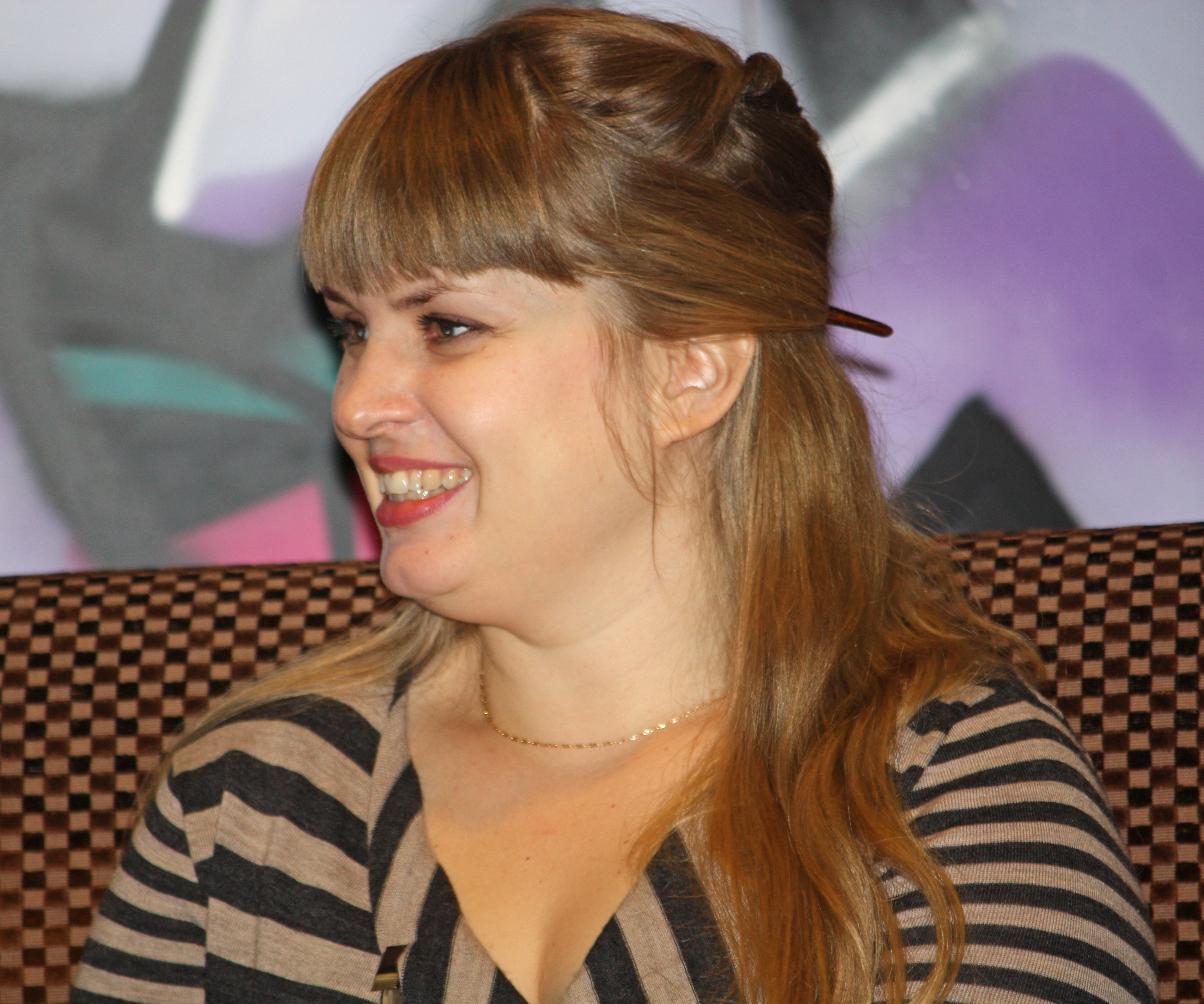 Finnish author Essi Tammimaa at Helsinki Book Fair 2013